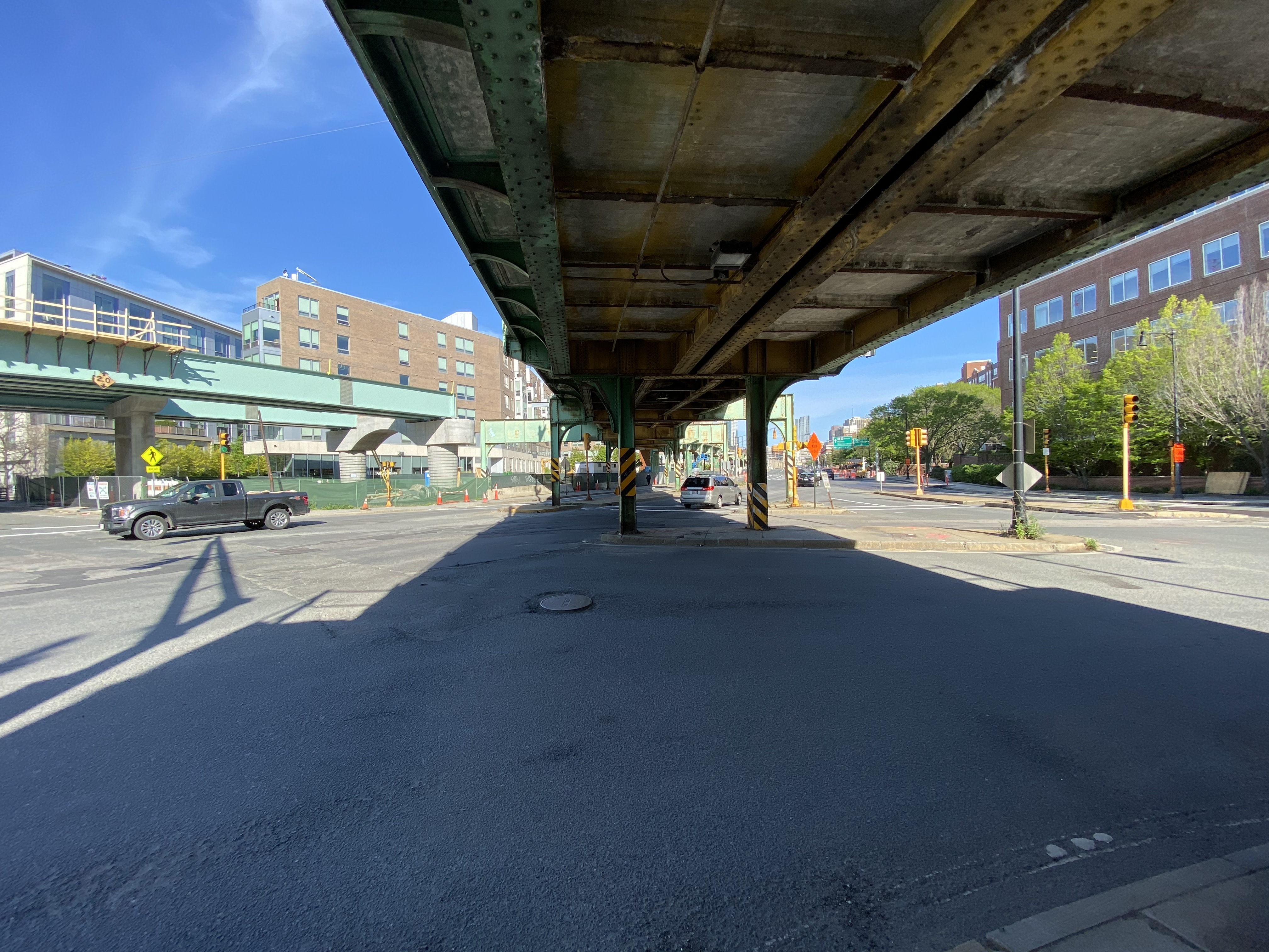 The old Lechmere Elevated (right) and construction of the new viaduct (left) on May 21, 2020, three days before Lechmere station closed for the demolition of the old viaduct and the construction of the new station and viaduct.